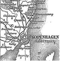 Part of map of Øresund, now showing only the central parts of Copenhagen 1888. Karte des Öresund / Quelle: Meyers Konversationslexikon von 1888, Band 10, Seite 61